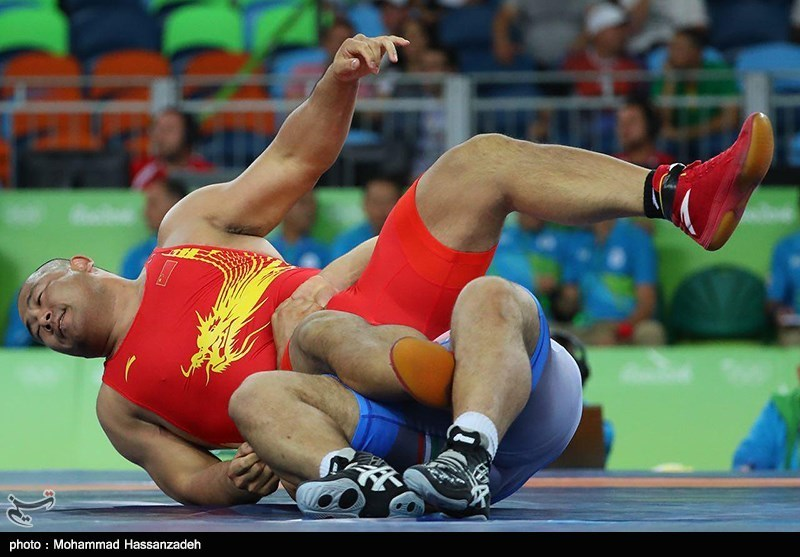 Rio 2016; Greco-Roman Wrestling 130 kg